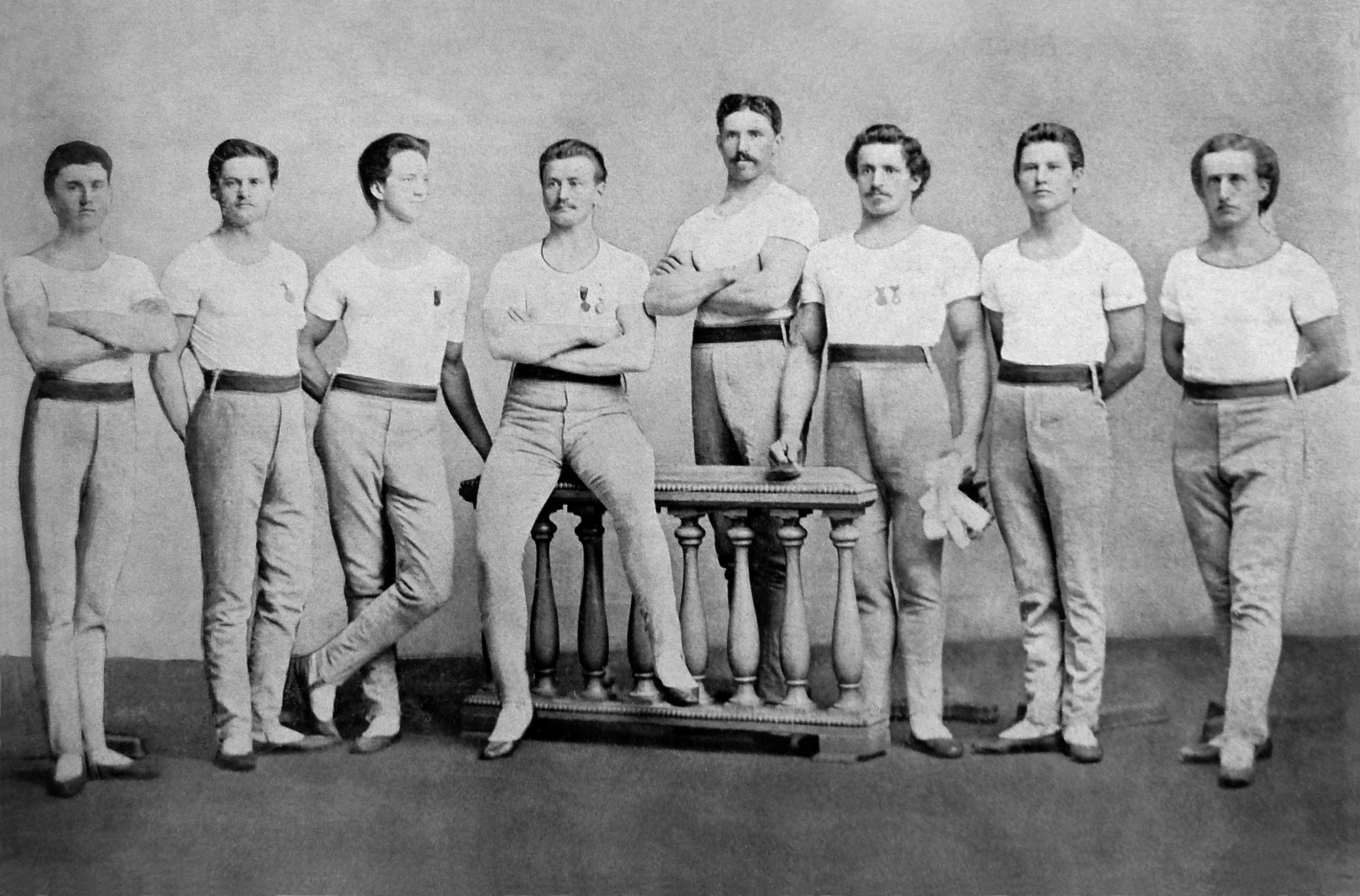 Prize-winning squad of the Milwaukee Turners at the 20th Federal Turner Festival in New York, 1875. From left to right: Anton Schaefer, George L. Goetz, Friedrich Kasten, Friedrich Brosius, J. B. Kalvelage, Otto Wagner, John Goetz, Leo. Barnickel.